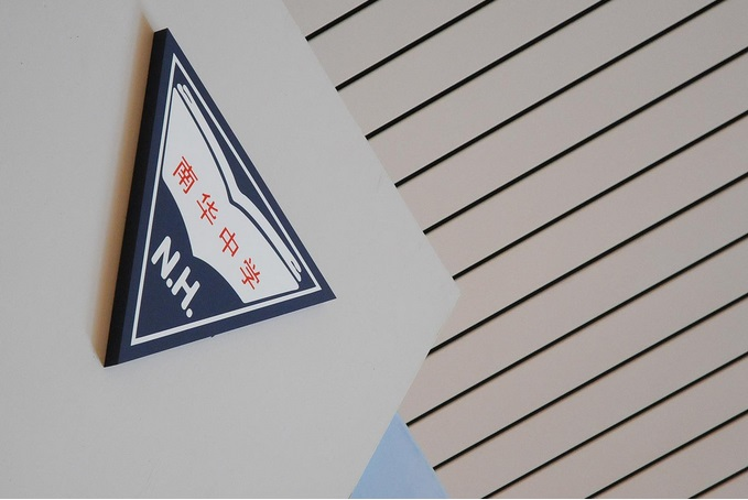 Nan Hua High School crest in Multi-purpose Hall